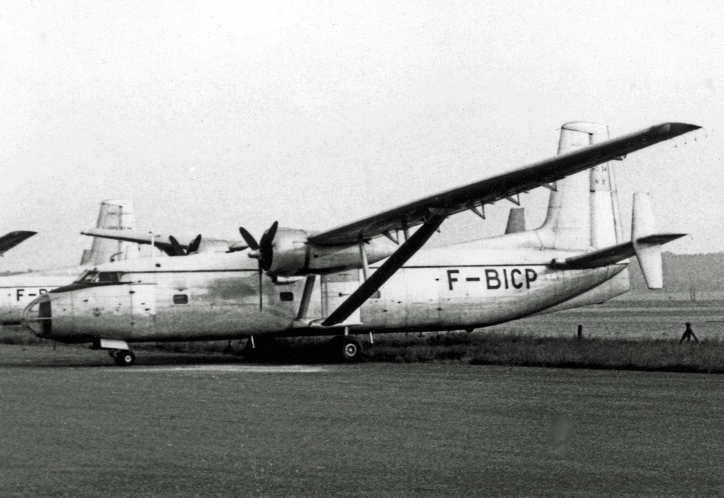 Hurel Dubois HD.34 F-BICP survey aircraft of the Institut National Geographique based at Creil France in 1967.